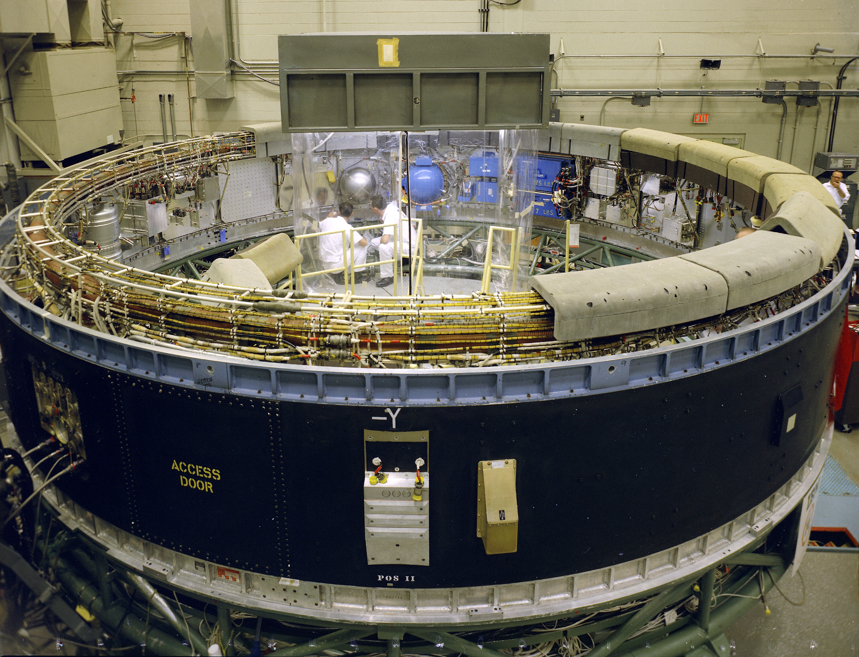 IU at IBM plant in Hunstville. Note the +Y marking, which implies that this IU was made subsequent to the change in vehicle coordinates effective for IU-204 and IU-502 and subsequent missions. In this system, X is vertical at the time of launch, and the IU bears Y and Z markings. In the older system, the IU had X and Z markings. [1] Original description: This view depicts engineers conducting a system test on the Saturn V instrument unit (IU) at International Business Machines (IBM) in Huntsville, Alabama. IBM is a prime contractor for development and fabrication of the IU. The IU is vital to the proper flight of the vehicle. It contains navigation, guidance, control, and sequencing equipment for the launch vehicle. Three-feet tall, twenty-one feet in diameter, and weighing about 4,000 pounds, the IU is mounted atop the S-IVB (third) stage, between the S-IVB stage and the Apollo spacecraft. ID: MSFC-6861934 Credit: NASA Marshall Space Flight Center (NASA-MSFC)